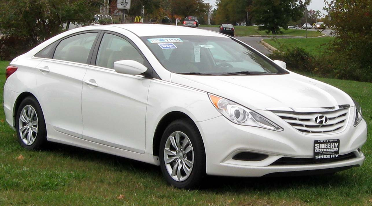 2012 Hyundai Sonata photographed in Waldorf, Maryland, USA.